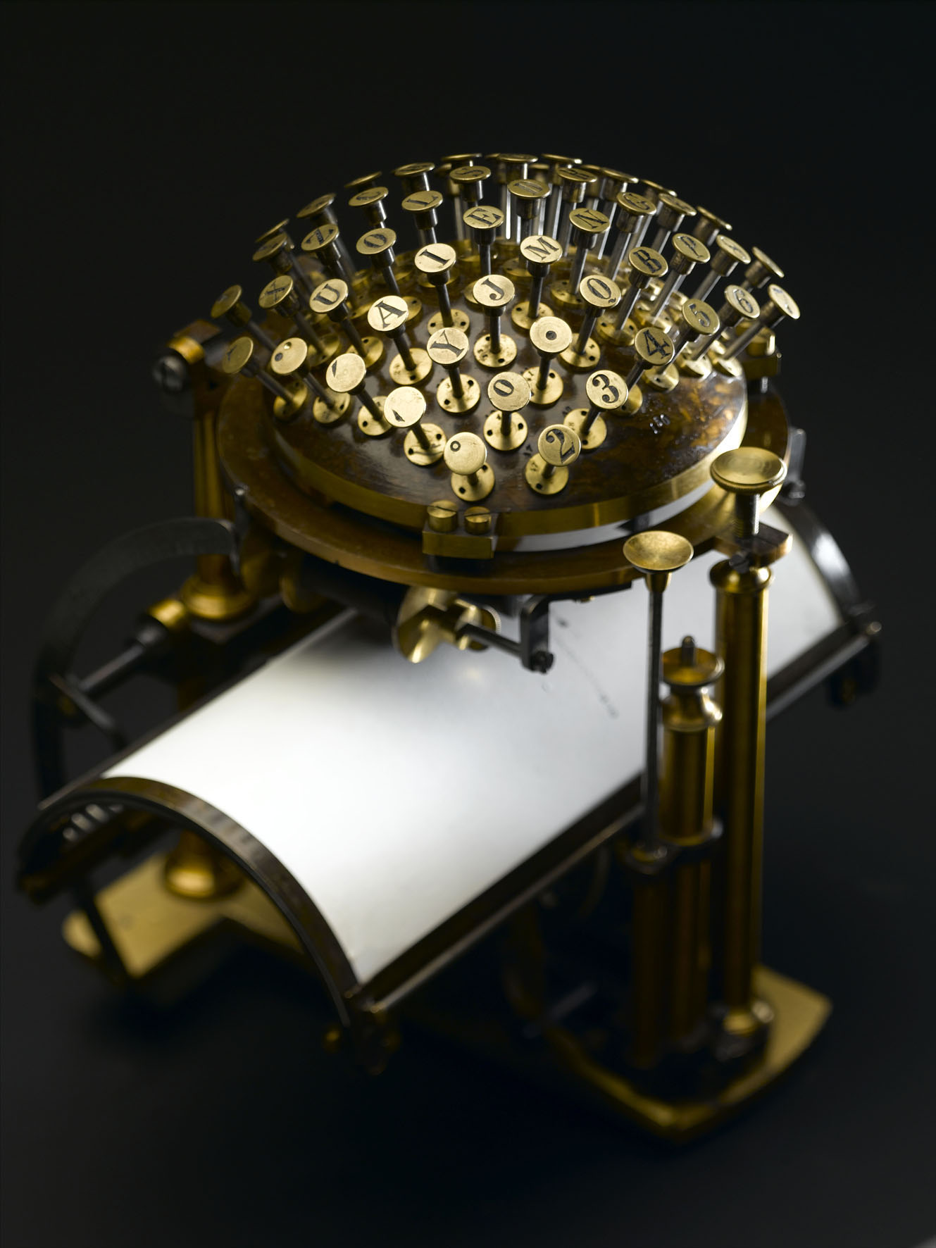 Malling Hansen,1867, Dänemark